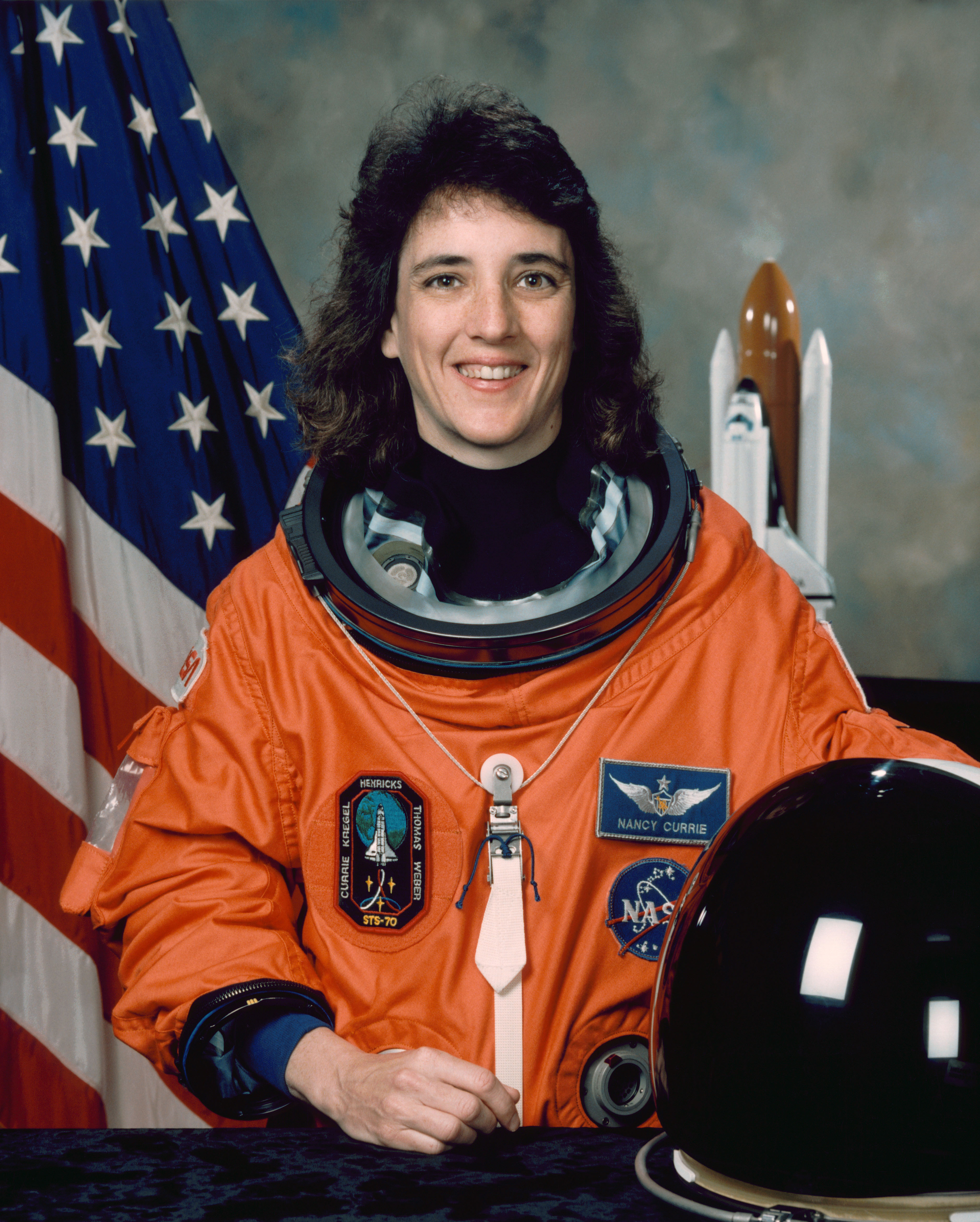 Nancy J. Currie, STS-109 mission specialist.